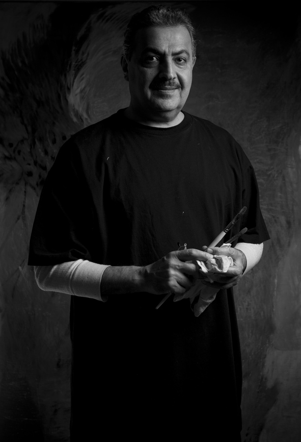 PORTRAIT OF SHAIKH RASHID BIN KHALIFA AL KHALIFA